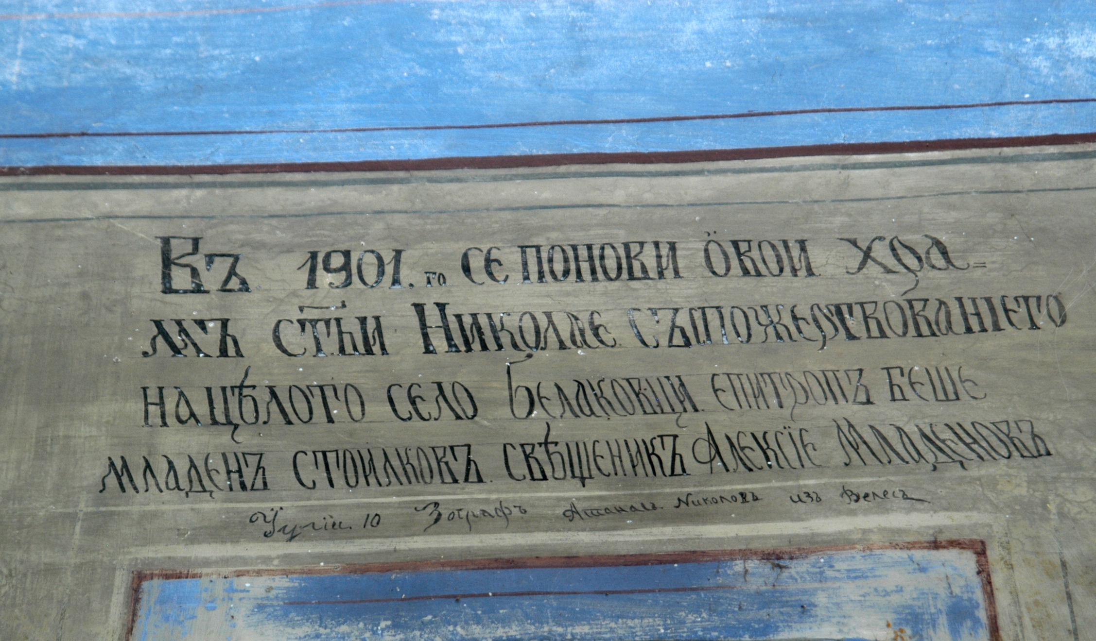 Saint_Nicholas_Church_in_Belyakovtse_Inscription